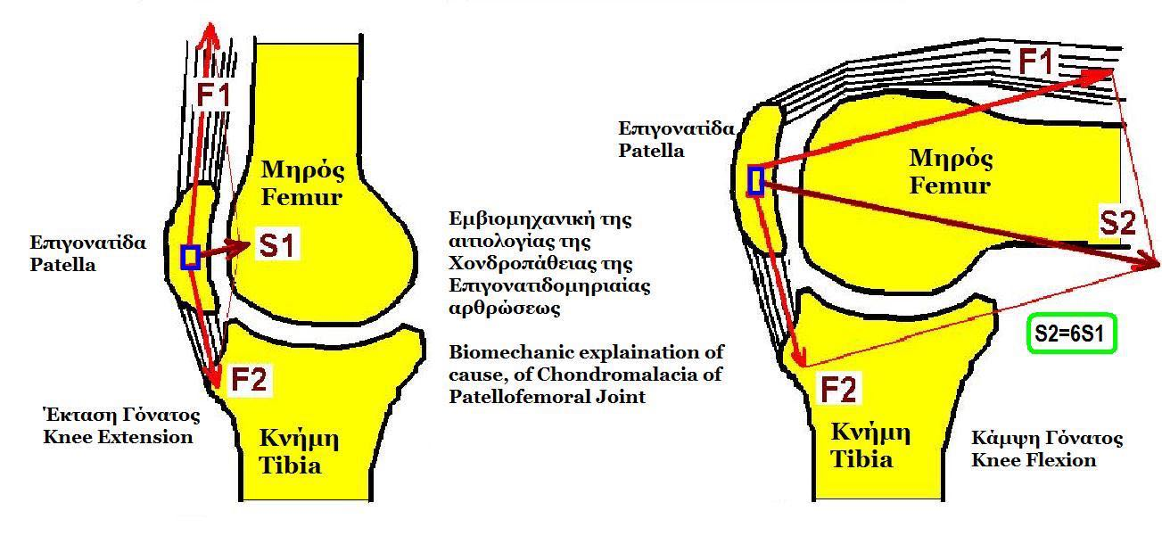 Knee Biomechanics